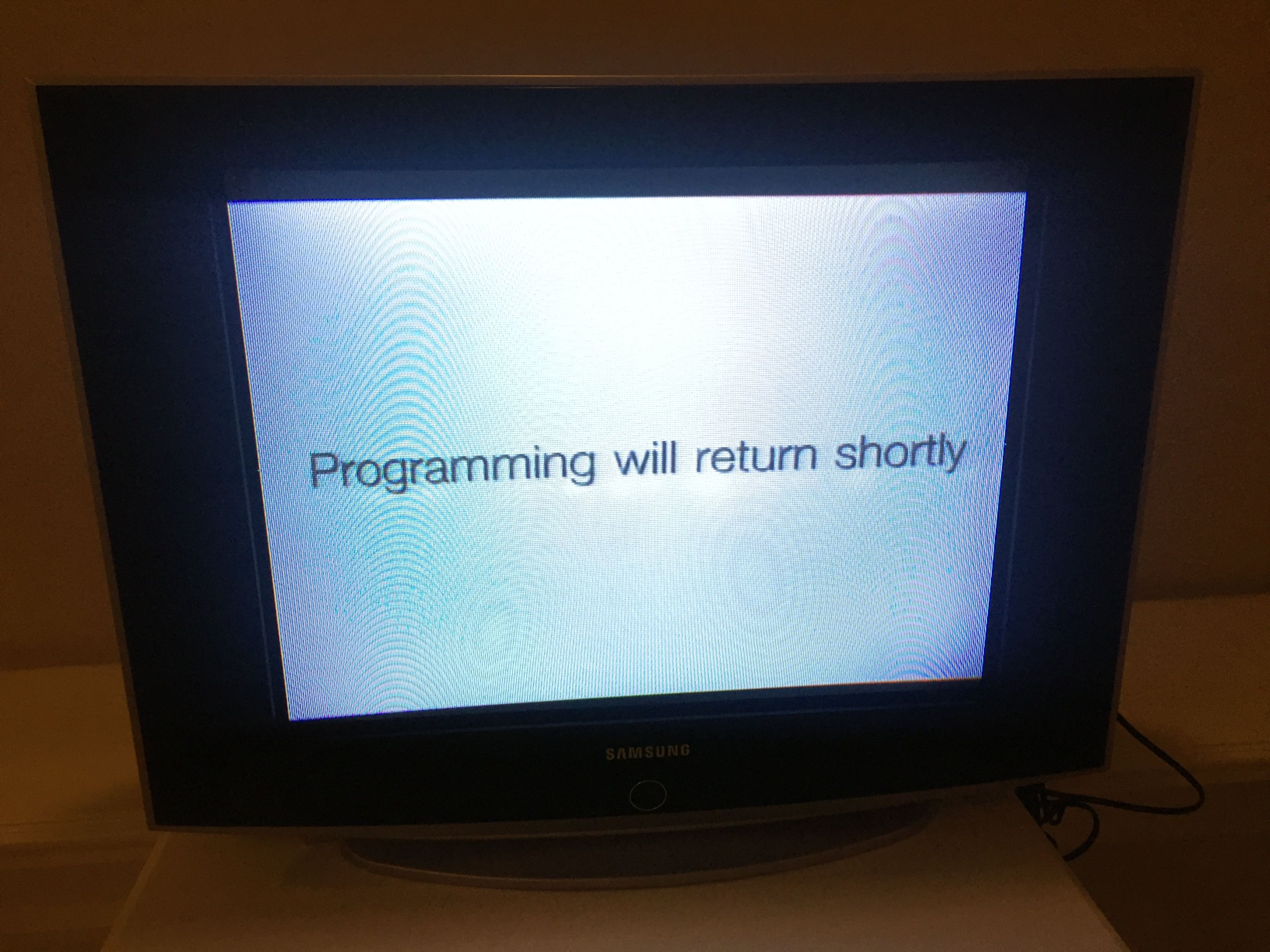 A BBC World News broadcast about the accession of Crown Prince Vajiralongkorn as King Rama X of Thailand being censored, presumably due to lèse-majesté concerns. This television set was in a hotel in Bangkok, Thailand.